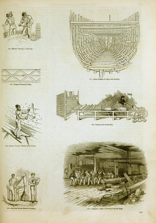 From Charles Knight's Pictorial Gallery of Arts, England, 1858. Shipbuilding illustrated.